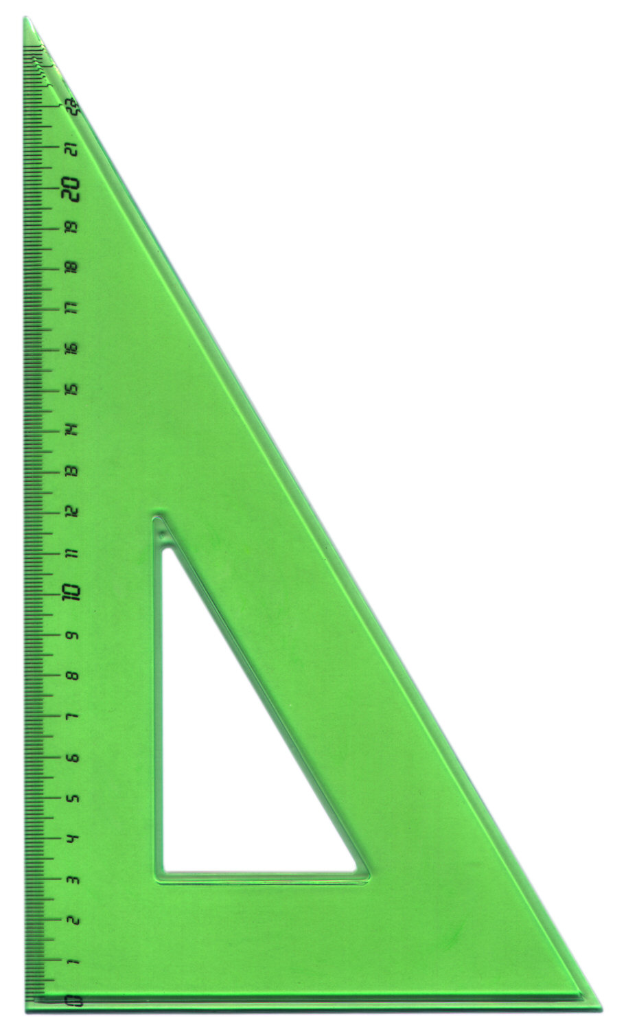 Square (Tool)